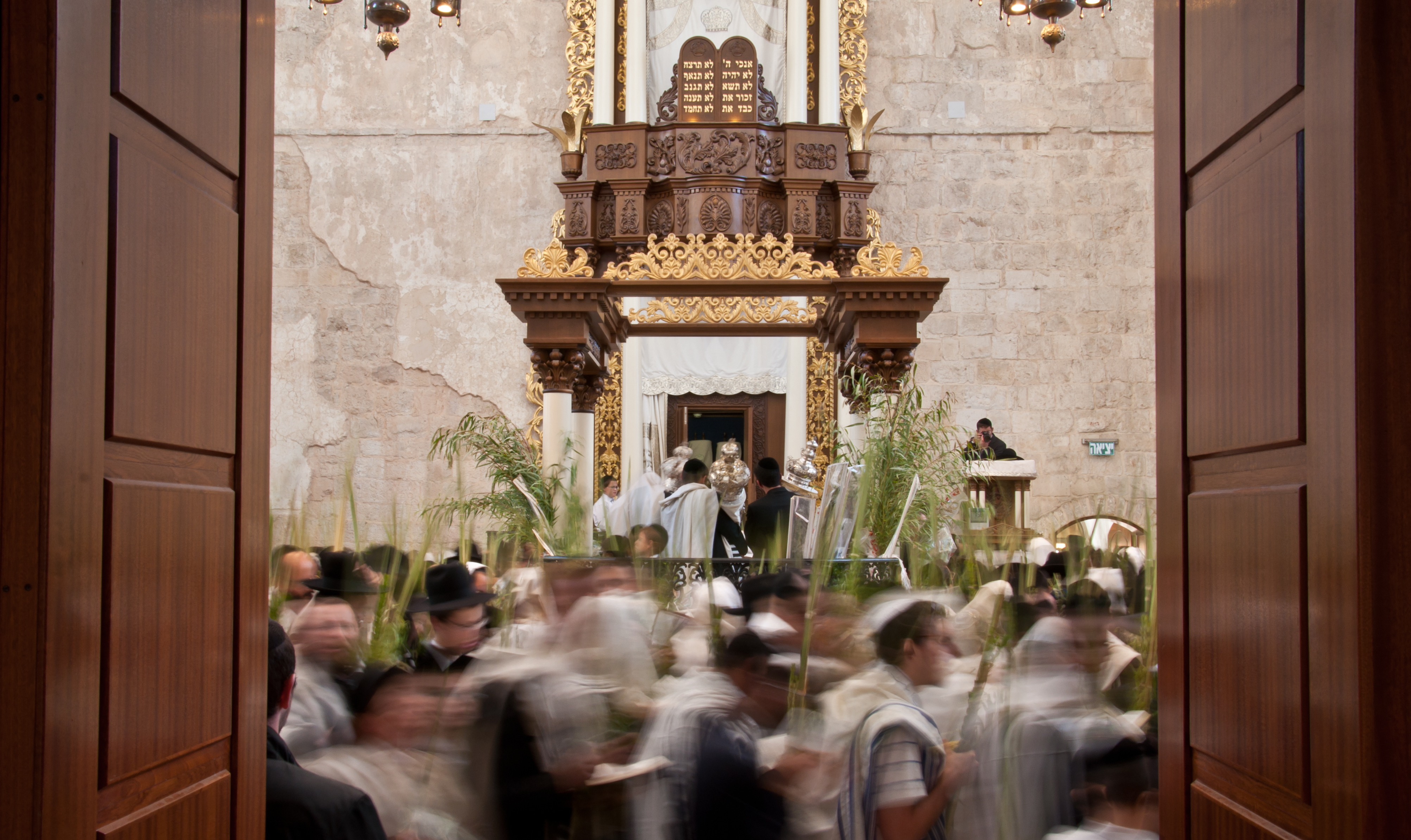 Hurva Synagogue